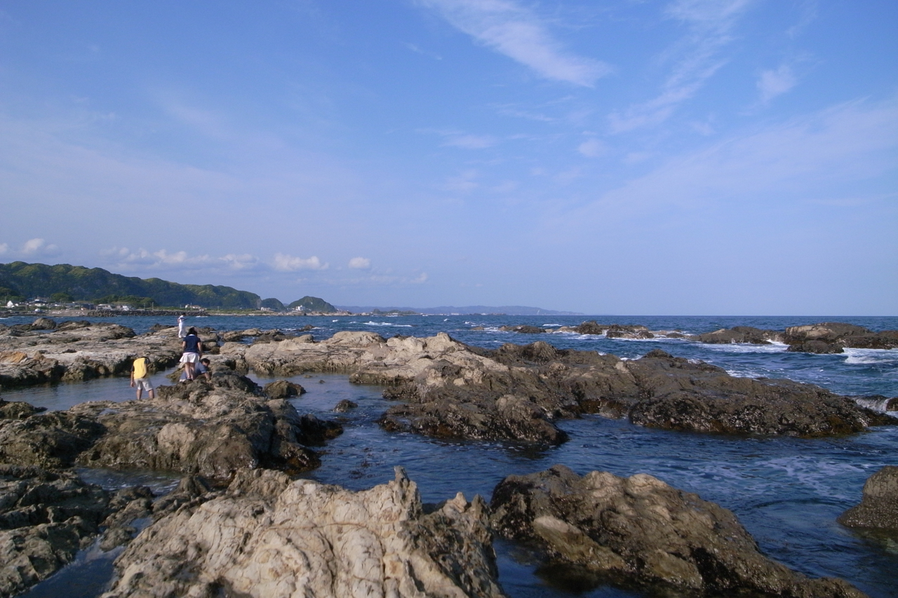 Coast in Emi, Kamogawa, Chiba, Japan.Ricoh GR Digital II